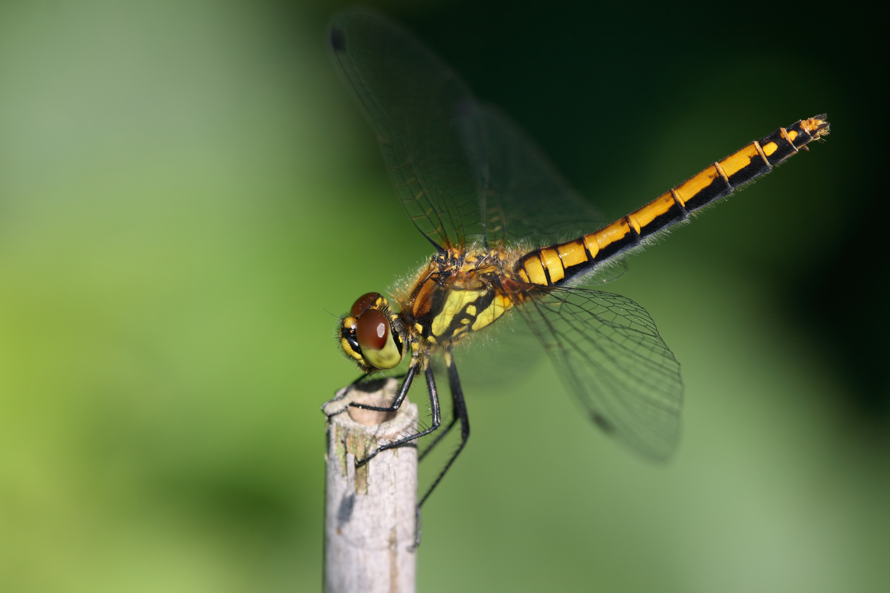 Young Female of the Black Darter (Sympetrum danae) in Otterndorf, northern Lower Saxony, Germany.